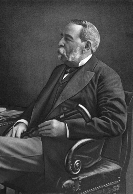 Warren Delano Jr., from Reynolds, Cuyler. Genealogical and Family History of Southern New York and the Hudson River Valley. New York: Lewis Historical Publishing Company, 1914, p. 1060.